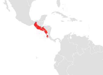 Distribution of